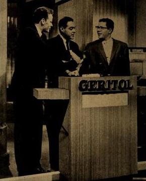 Herb Stempel with Charles Van Doren and Jack Barry on Twenty-One, 1957